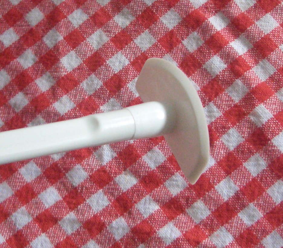 Close-up of the head/spatula side of a flessenschraper/flessenlikker - a Dutch bottle scraper for use with long-necked vla bottles.